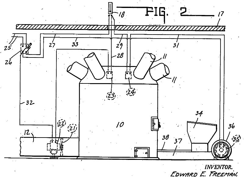 Patent drawing of Freeman furnace system involved in The Mercoid Cases Other information Patent drawing